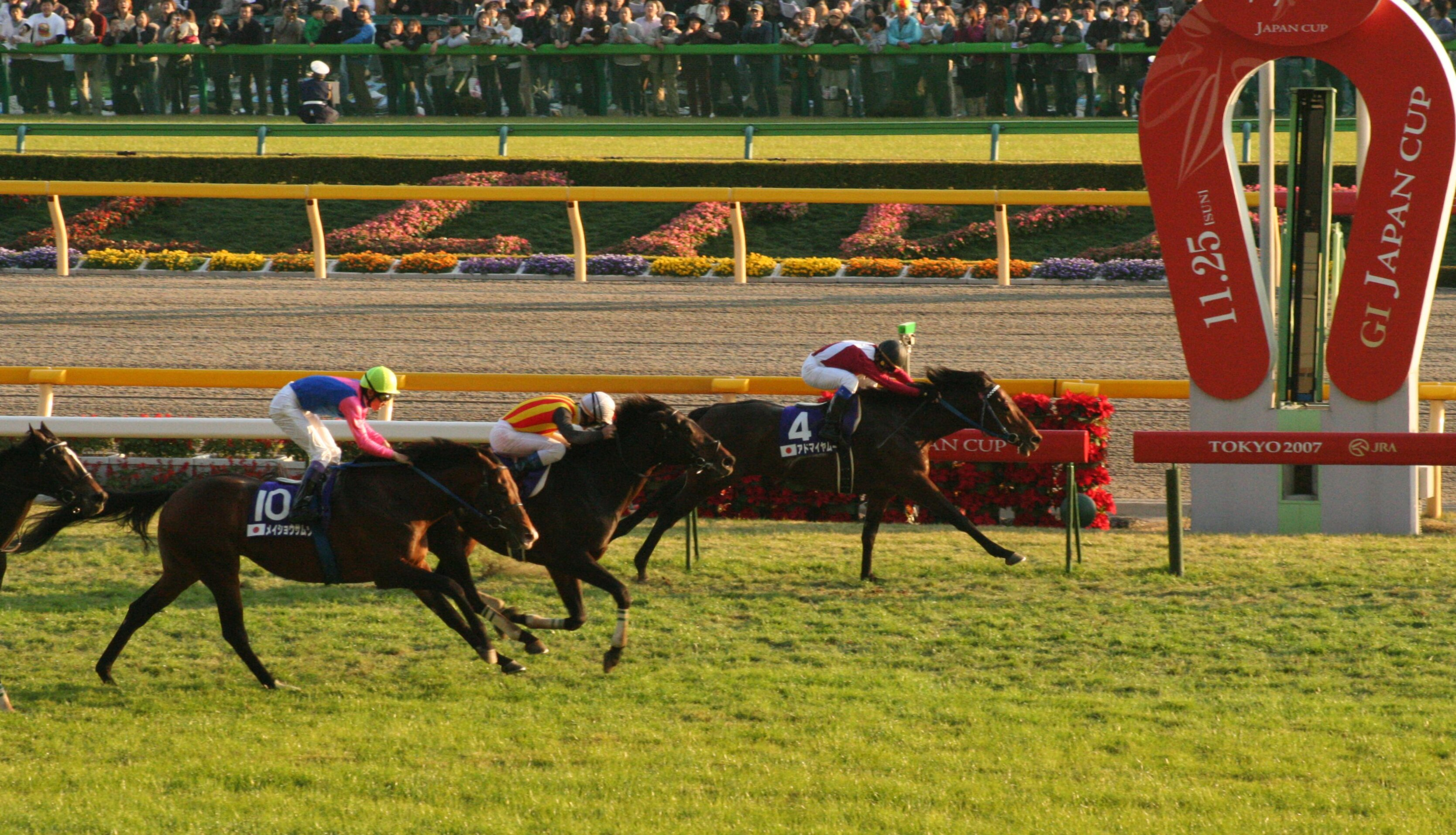 Japan Cup (Horseracing).